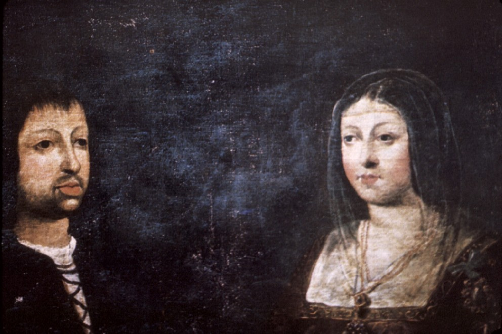 Wedding portrait of King Ferdinand of Aragon and Queen Isabella of Castile, 1469, photo by Fr. Richard J. Blinn, S.J. / 00133.jpg - 141 kB, Pintura de los "Reyes Católicos" que se encuentran las dependencias reales del palacio convento de las MM. Agustinas de Madrigal.